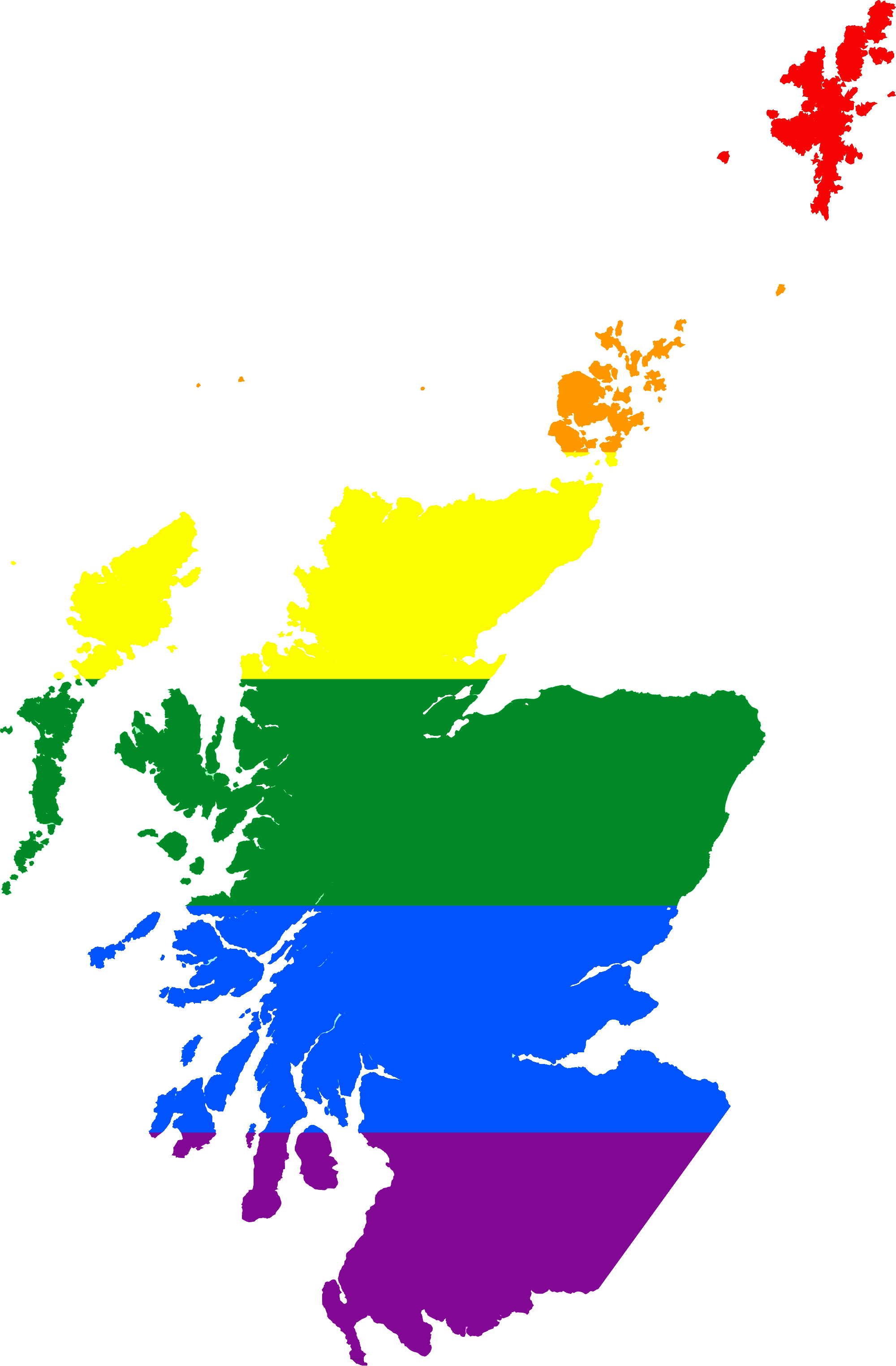 LGBT Flag map of Scotland